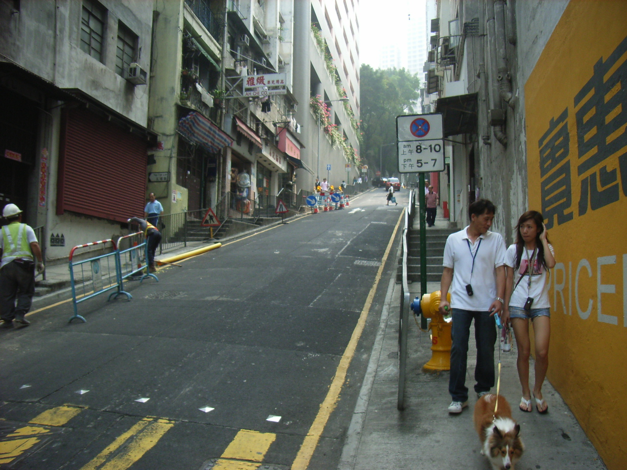 Roads in Hong Kong island. by User:Sammi Tunkarly